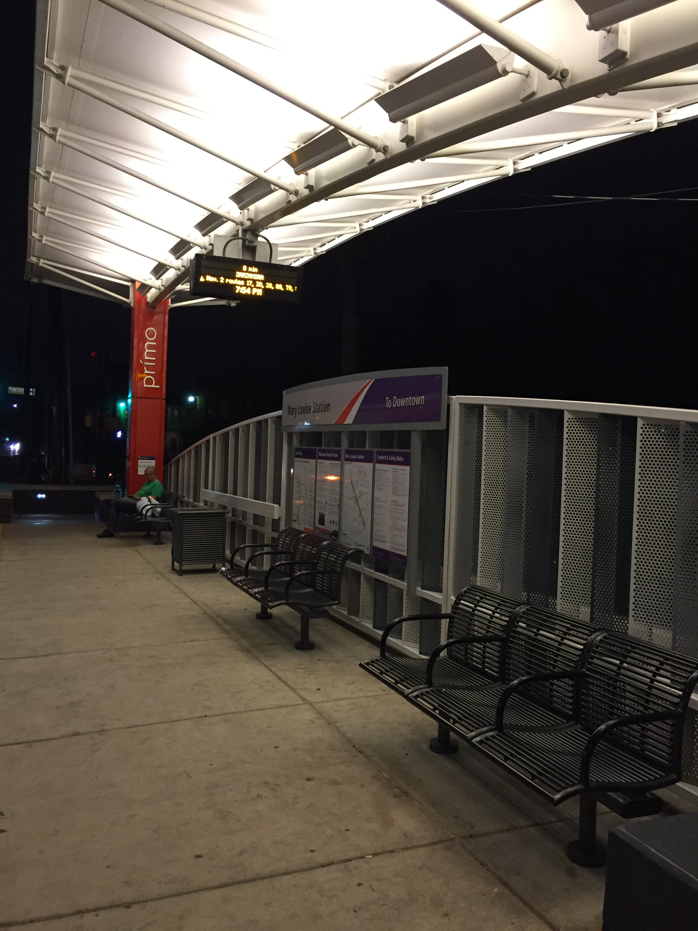 VIA Primo Mary Louise Station Southbound to Downtown